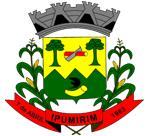 Coat of arms of the municipality of Ipumirim - SC - Brazil